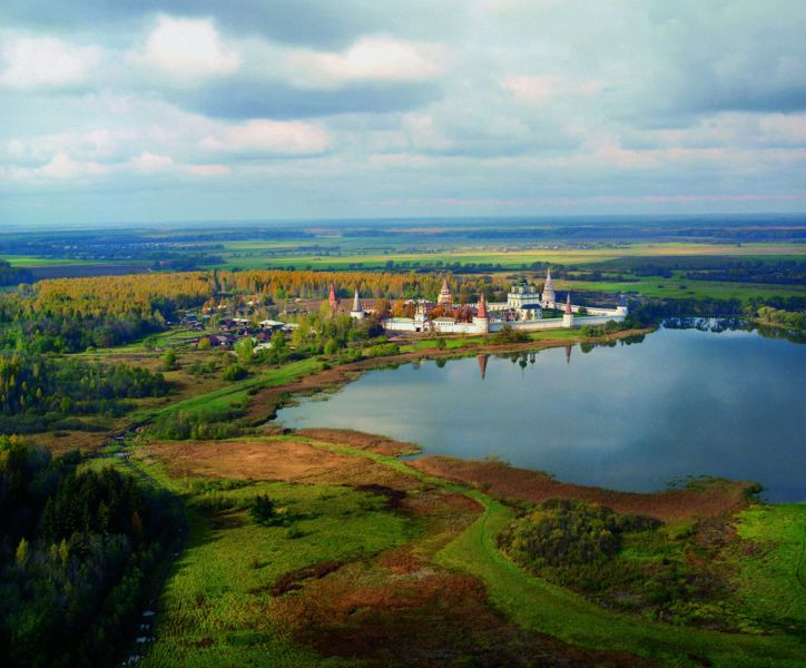 Joseph-Volokolamsk Monastery